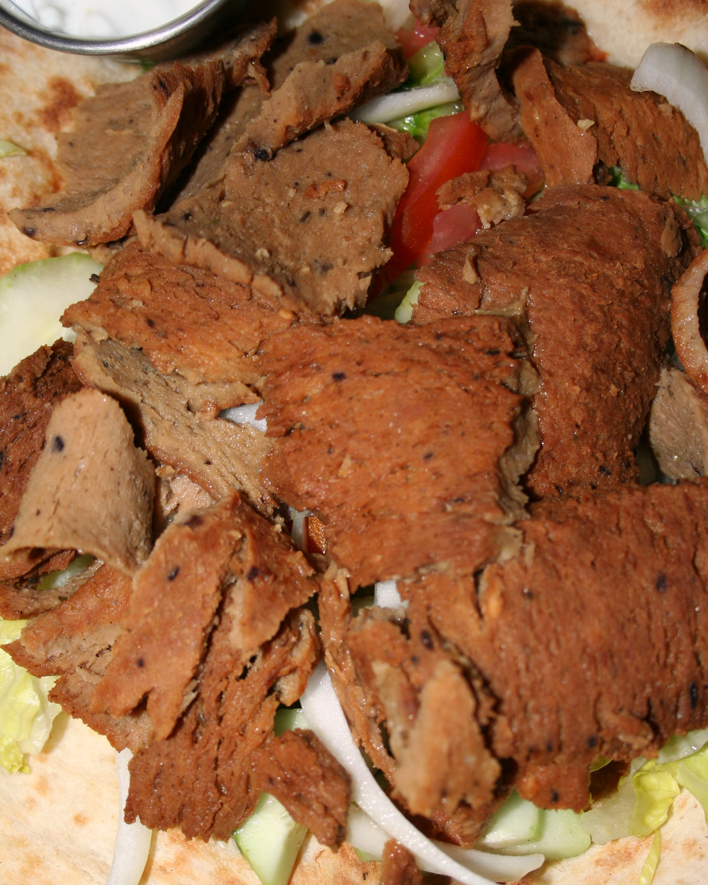 Lamb meat, tomato, onion, cucumber, and lettuce on pita bread served with tzatziki sauce at a restaurant in Rochester, Minnesota.